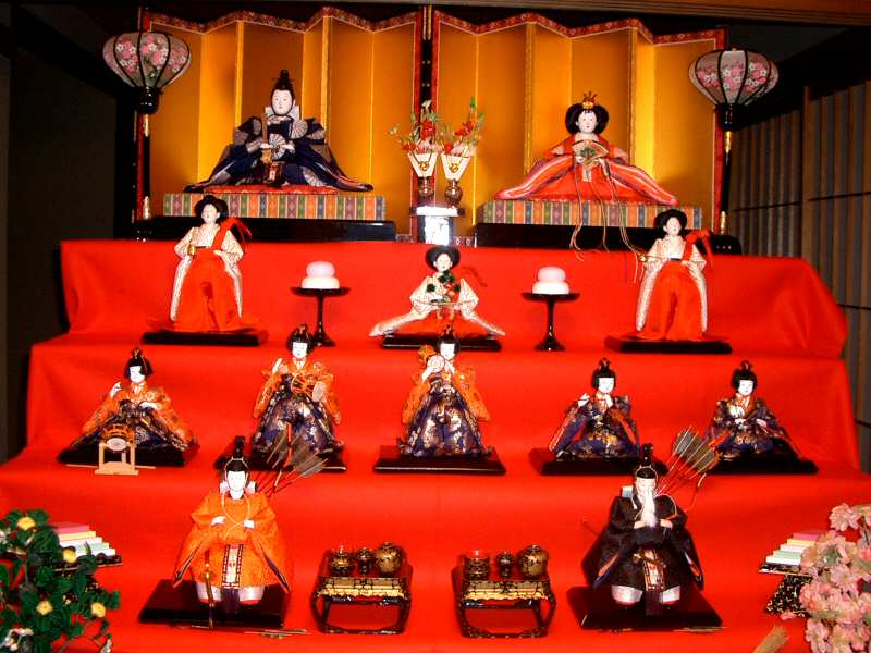 Hina matsuri doll display